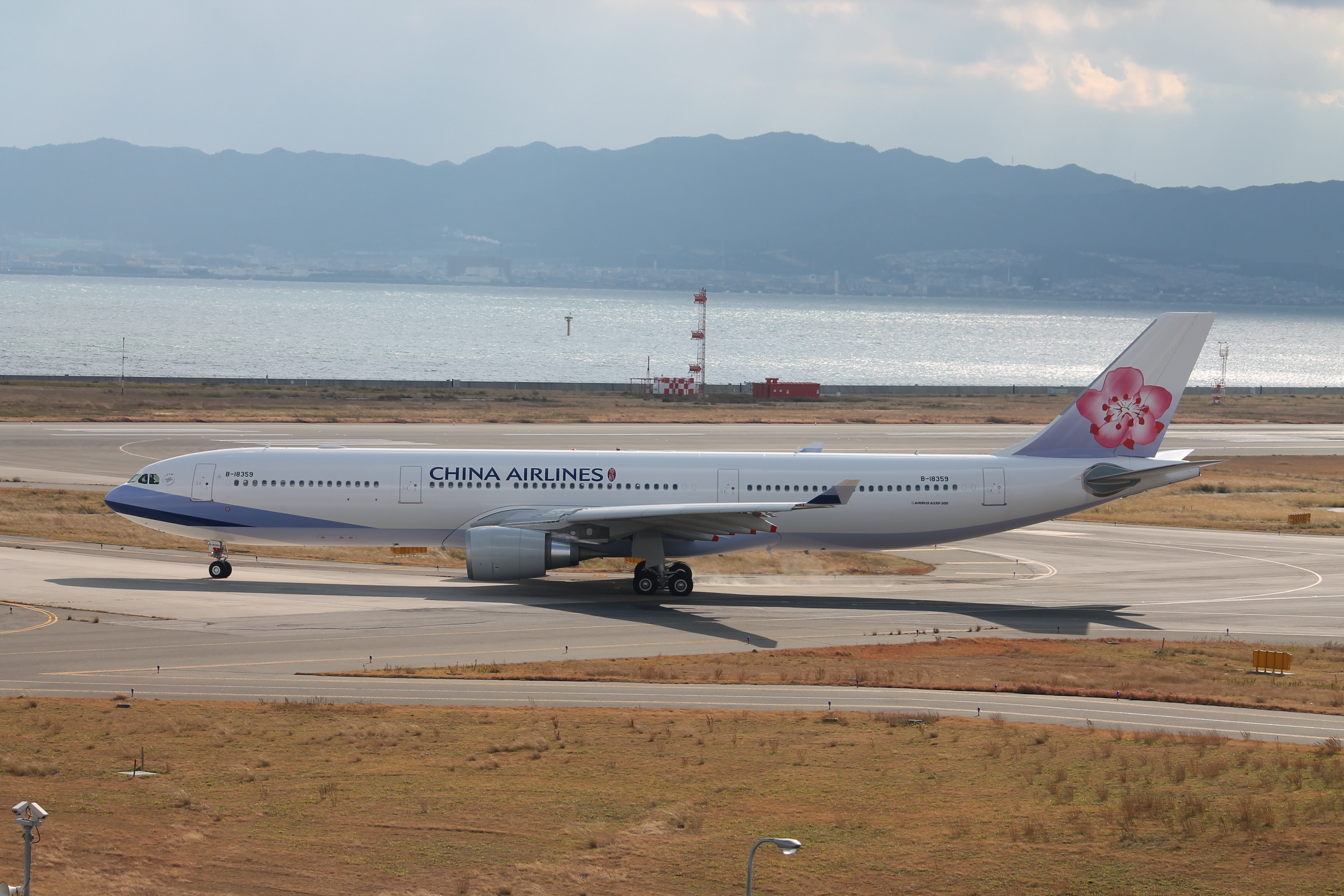 B=18359 This photo is taken in Kansai International Airport(JAPAN).It was filmed on Dec./9/2012.